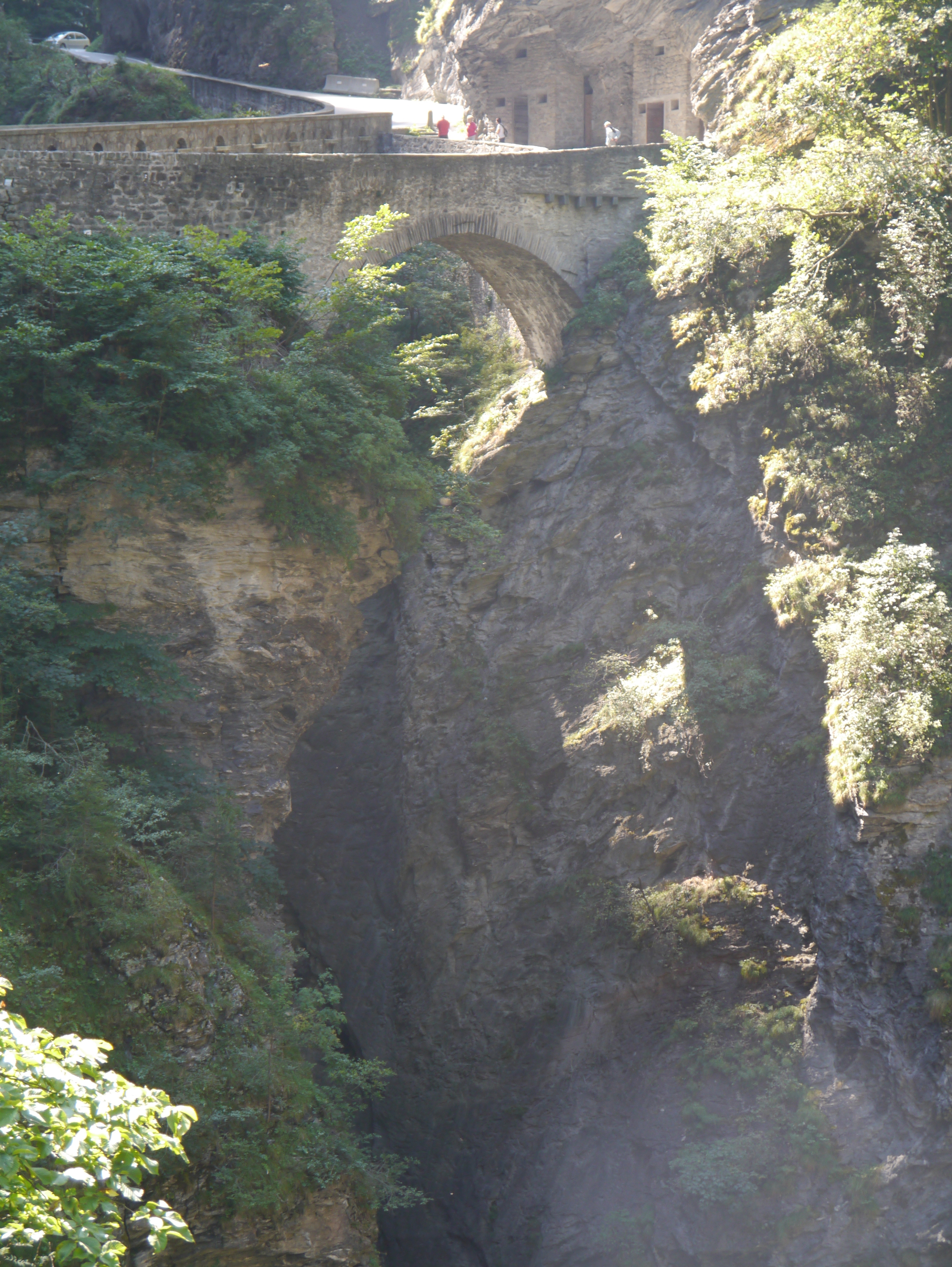 Via Mala Canyon near Thusis, Canton of Graubünden, Switzerland